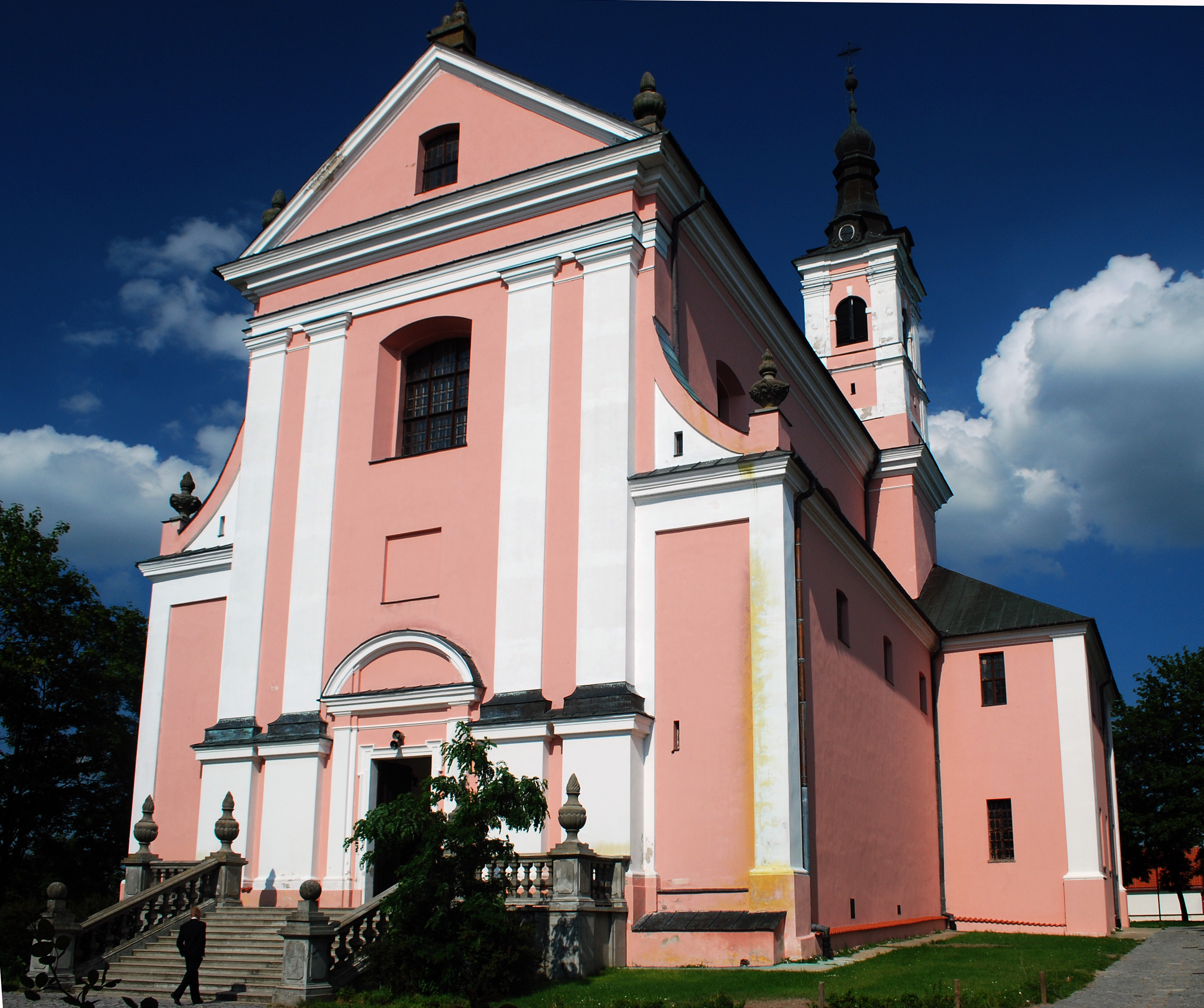 This photo from Podlaskie Voievodeship was taken during Polish Wikiexpedition 2009 set up by Wikimedia Polska Association. The making of this document was supported by Wikimedia Polska.